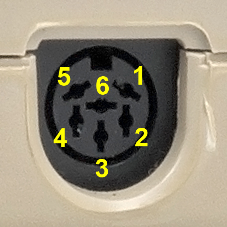 Commodore 64 serial IEEE-488 port pinout (cropped from File:Commodore-64-Back.jpg)Pinout: 1-/SRQIN, 2-GND, 3-/ATN, 4-/CLK, 5-/DATA, 6-/RESET